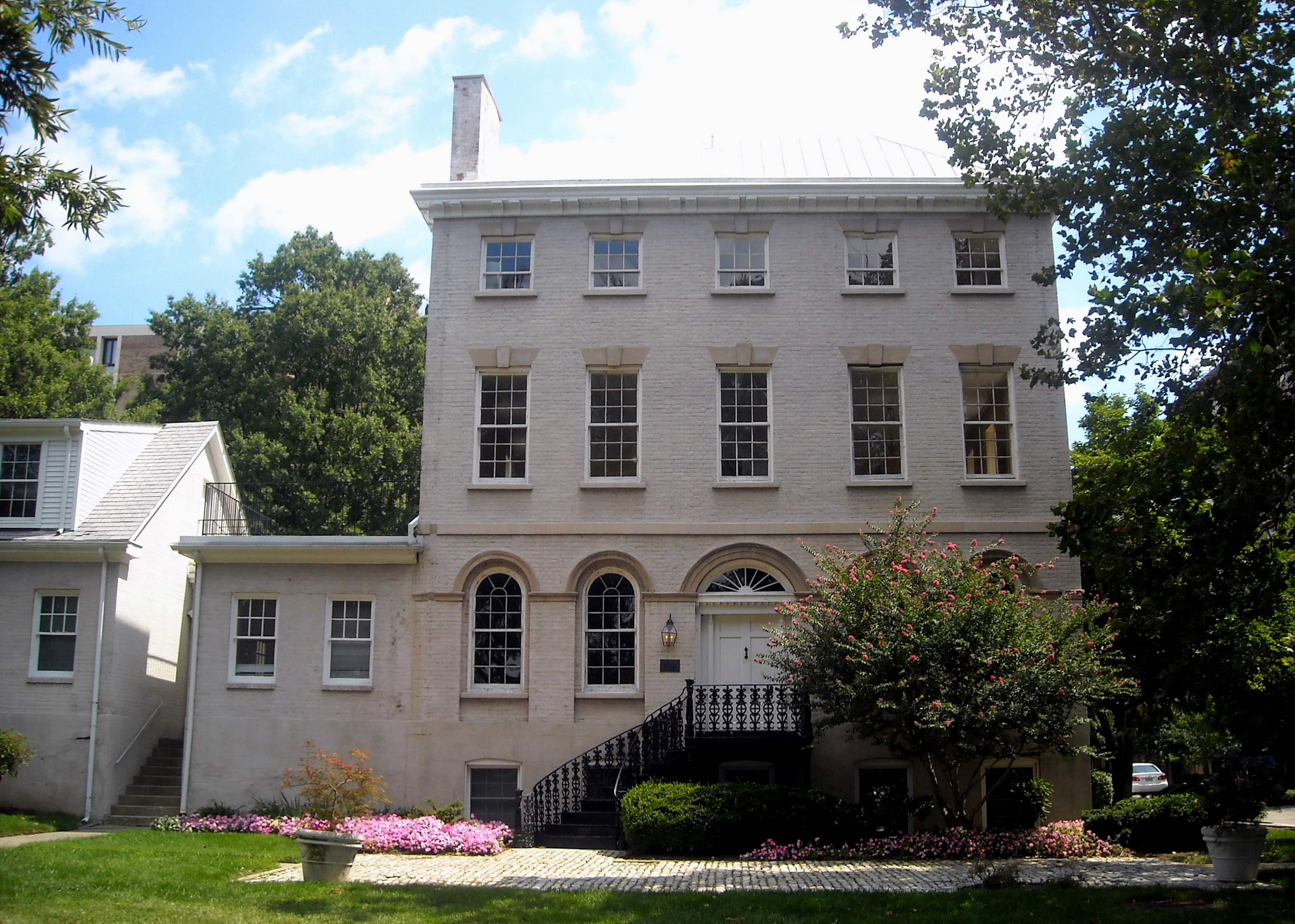 The Thomas Law House, also known as the Honeymoon House, located at 1252 6th Street, SW in the Southwest Waterfront neighborhood of Washington, D.C. Designed by William Lovering in 1796, the home is an example of Federal architecture and one of the few buildings in Southwest to survive the 1950s and 1960s demolitions. The home is now part of the Tiber Island development and was placed on the National Register of Historic Places in 1973.